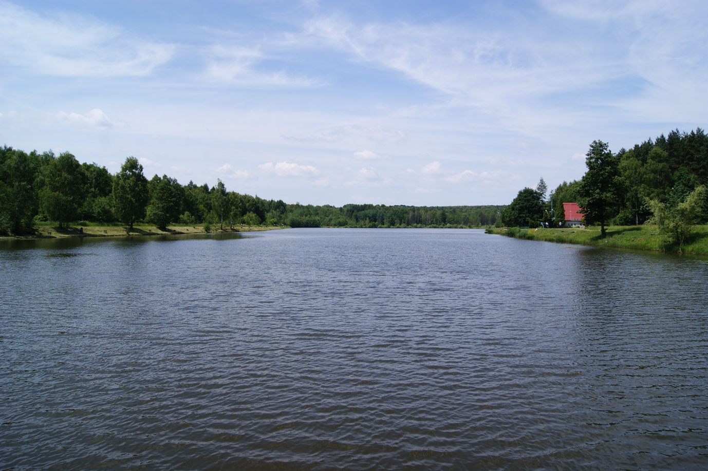 Lake in Wesoła Fala resort